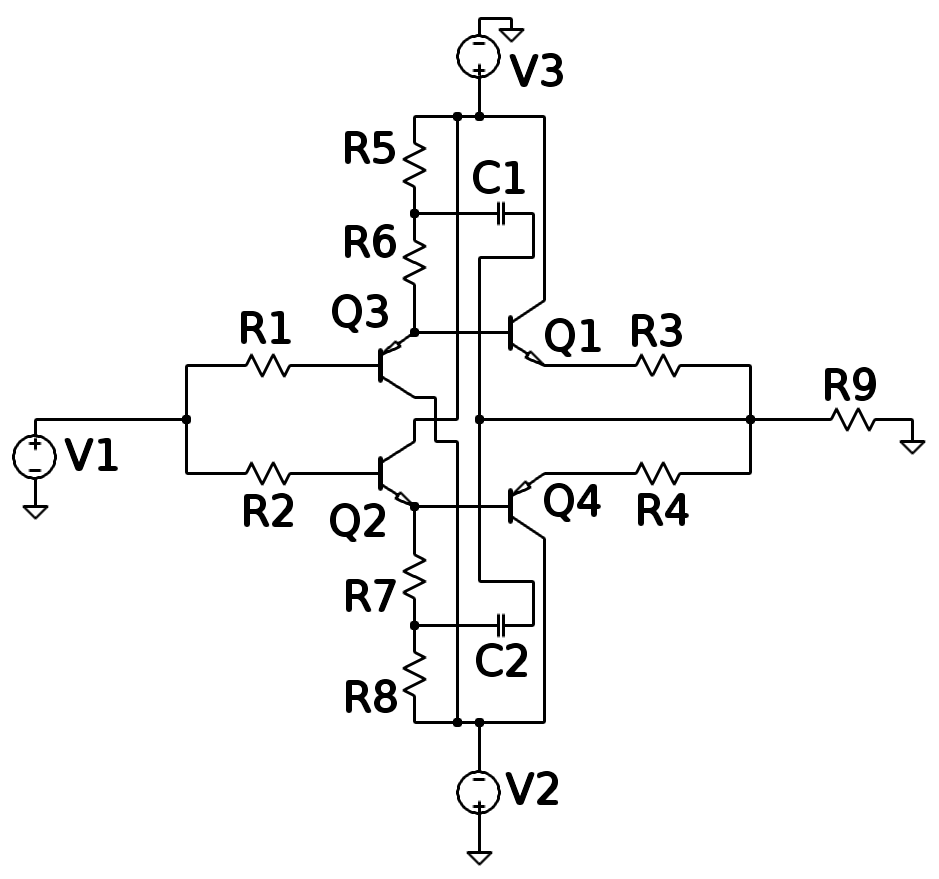 An emitter follower, made of four bipolar junction transistors.